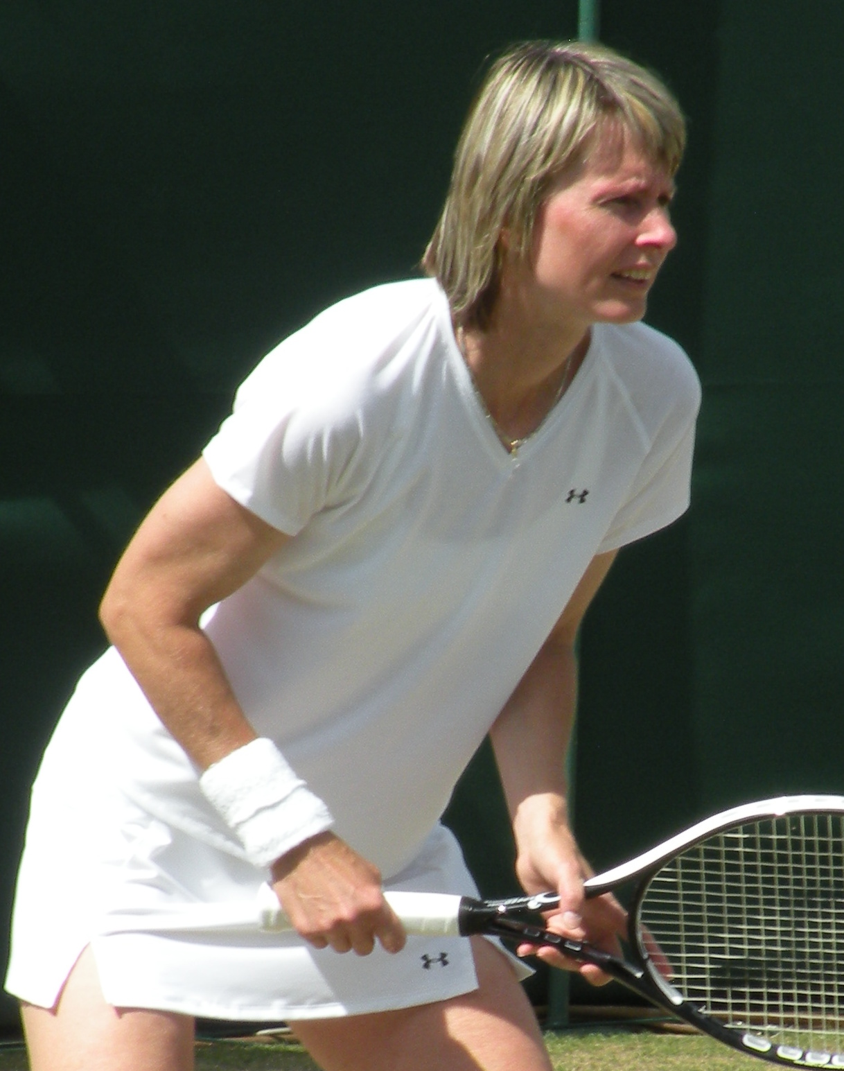 Helena Sukova playing in the ladies over 35 invitational doubles at Wimbledon 2008